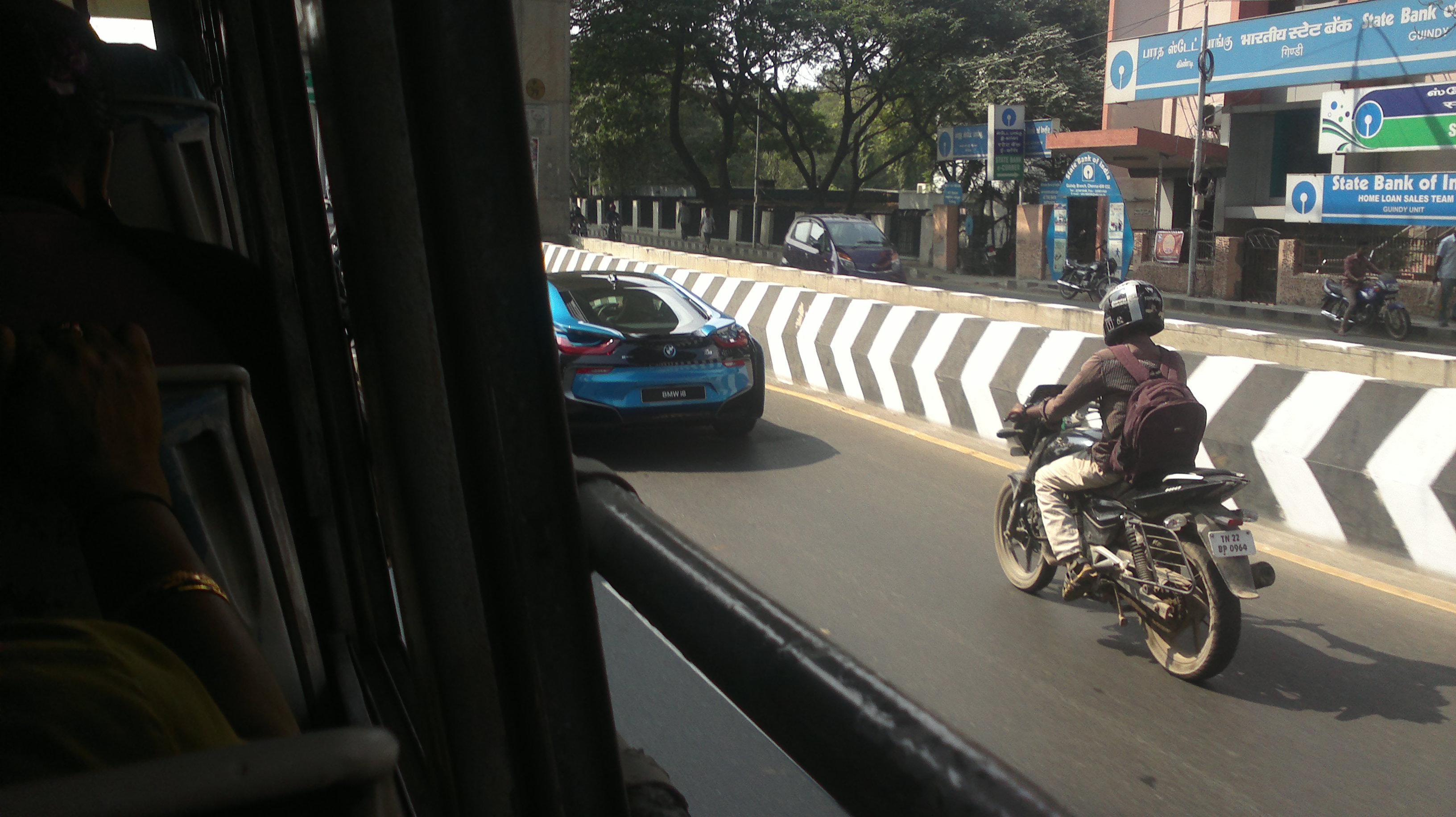 BMW i8 in Chennai